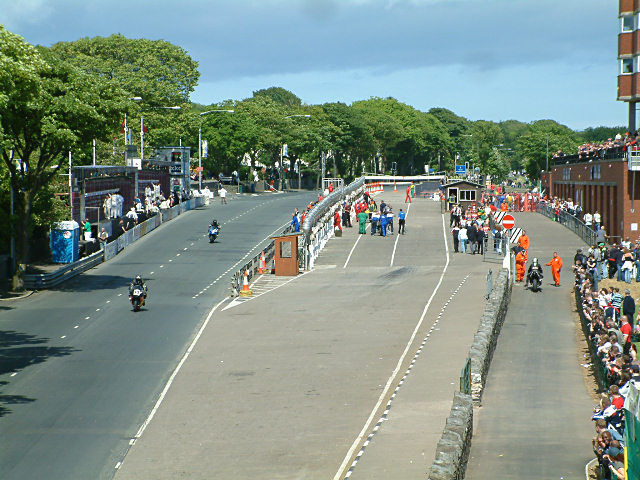 The TT Grandstand Area - Isle of Man. This was taken from the footbridge over the course during one of the races in the 2004 festival. The actual grandstand is just about out of shot to the right, but the track and pit areas are visible.